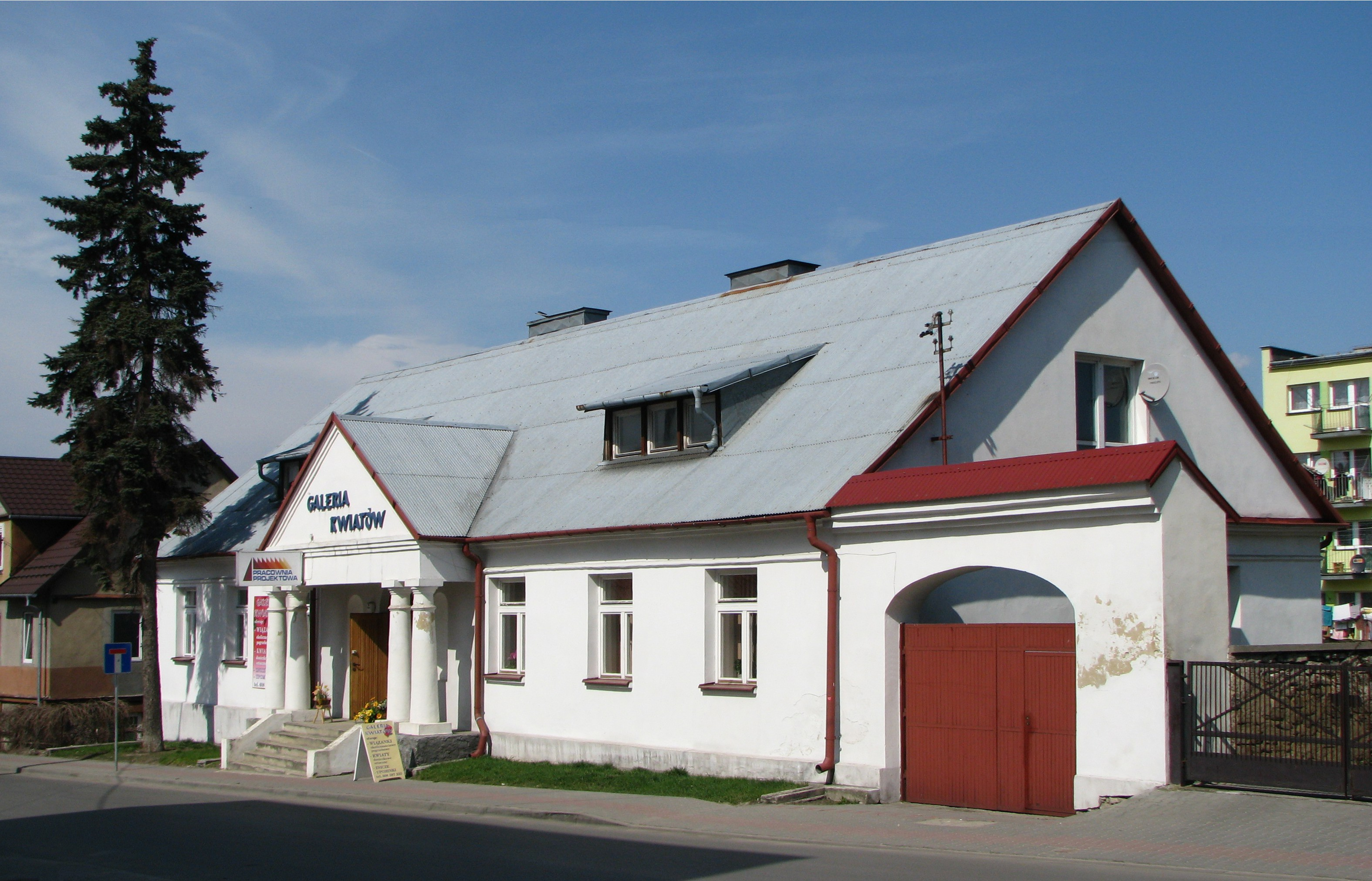 Manor house from the nineteenth century, Wschodnia street in Staszów, Poland.